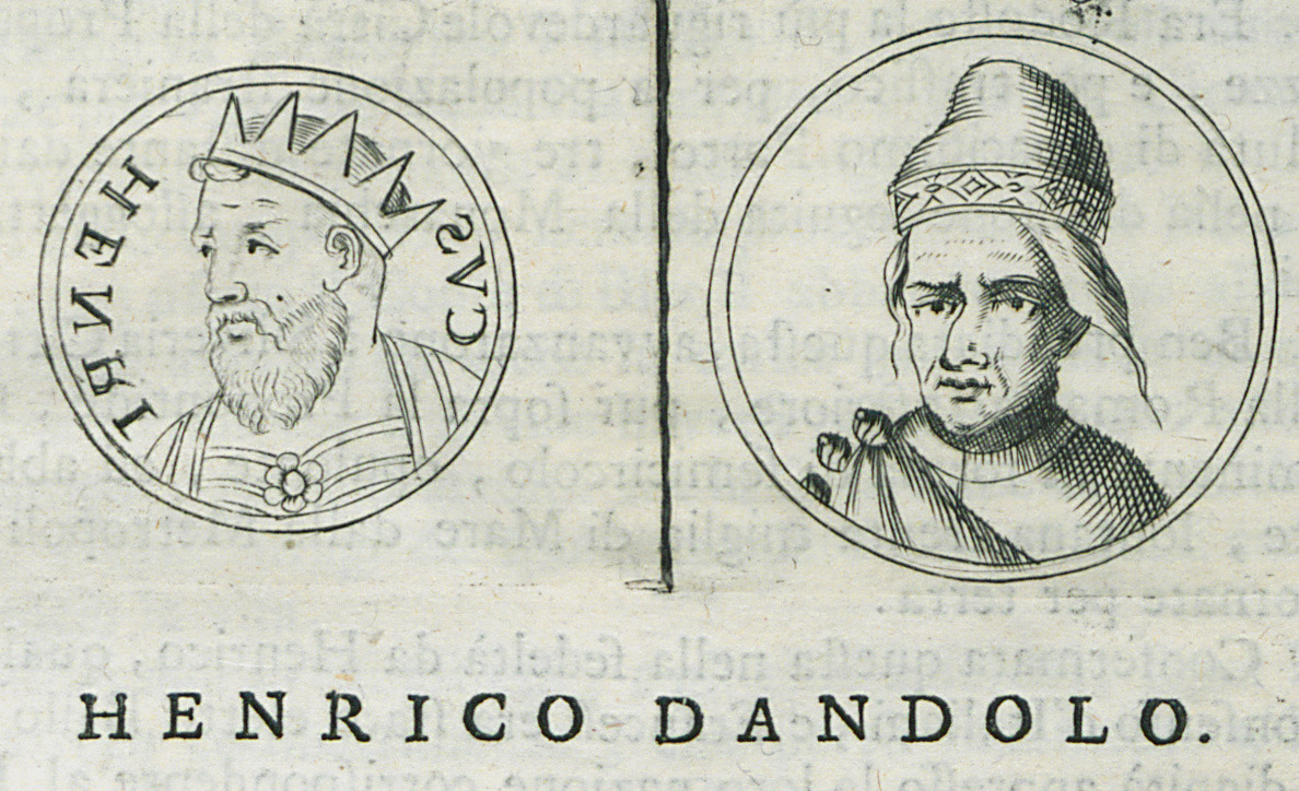 Illustration from Atene Attica Descritta da suoi Principii sino all’acquisto fatto dall’Armi Venete nel 1687…, Venice, Antonio Bortoli, 1695 edition, by Francesco Fanelli. Left portrait, Emperor Henry of Constantinople; right portrait, Doge Enrico Dandolo